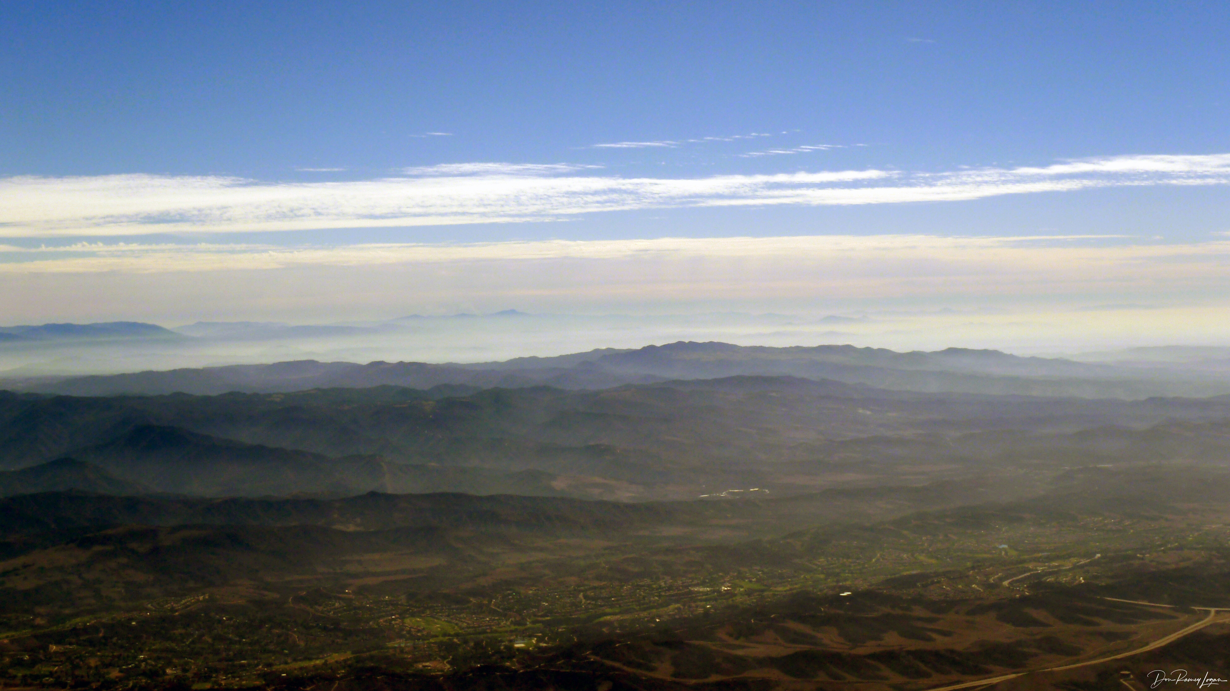 Rancho Santa Margarita (town) and the Santa Ana Mountains — in Orange County, California. photo D Ramey Logan